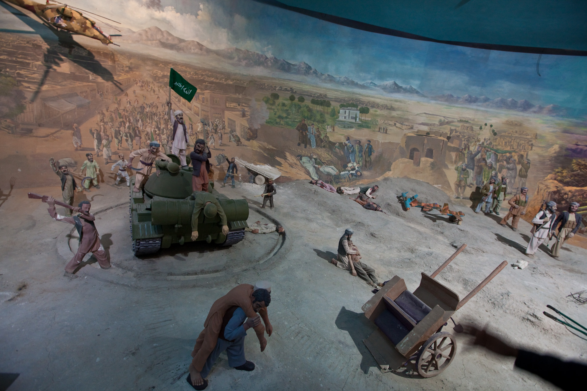 Miniature diorama in the Herat Military Museum. It includes sclae models of a T-54 or T-55 tank and a Mil Mi-24 helicopter gunship.